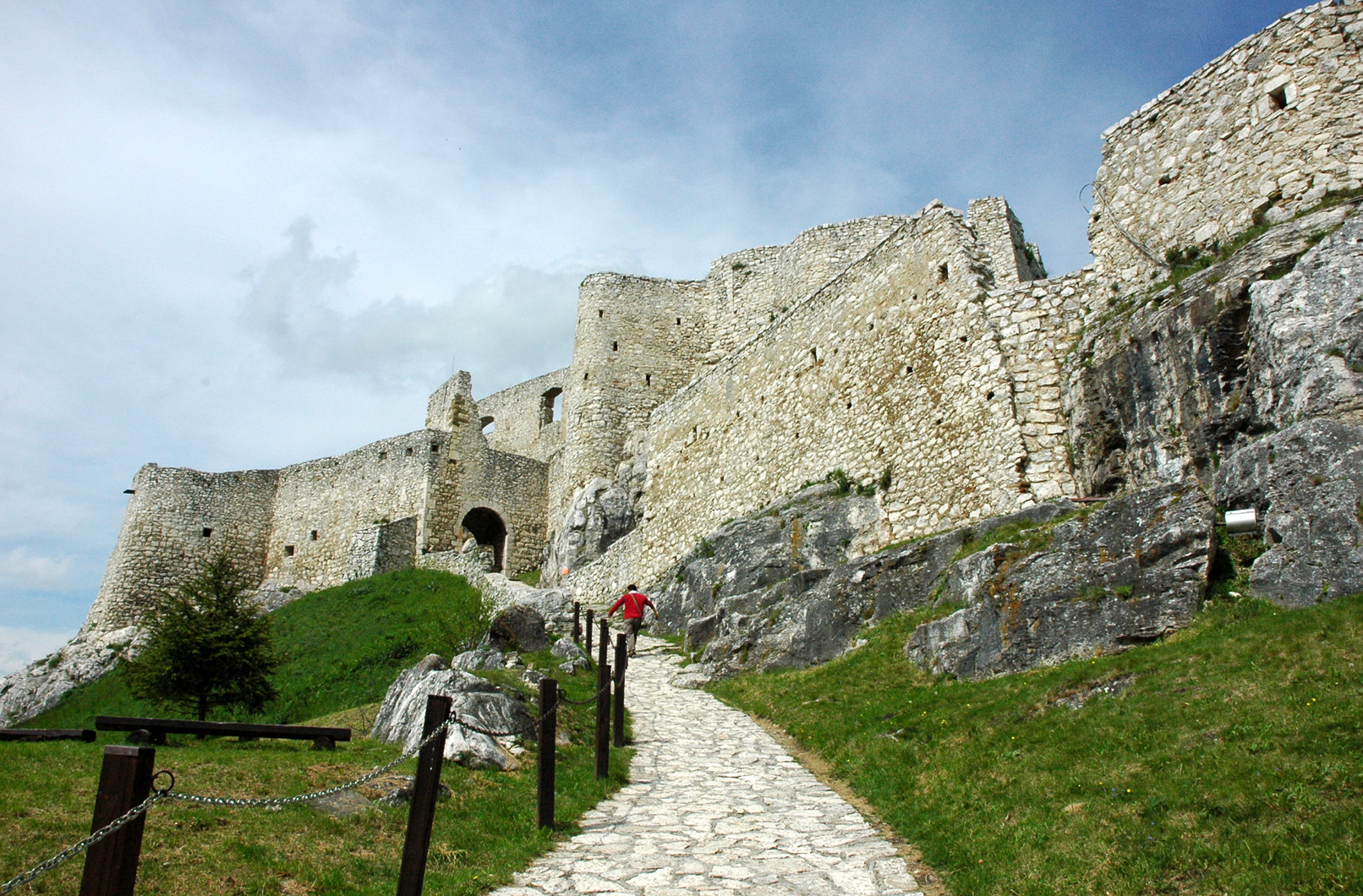 Spiš Castle